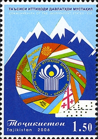 Stamps of Tajikistan